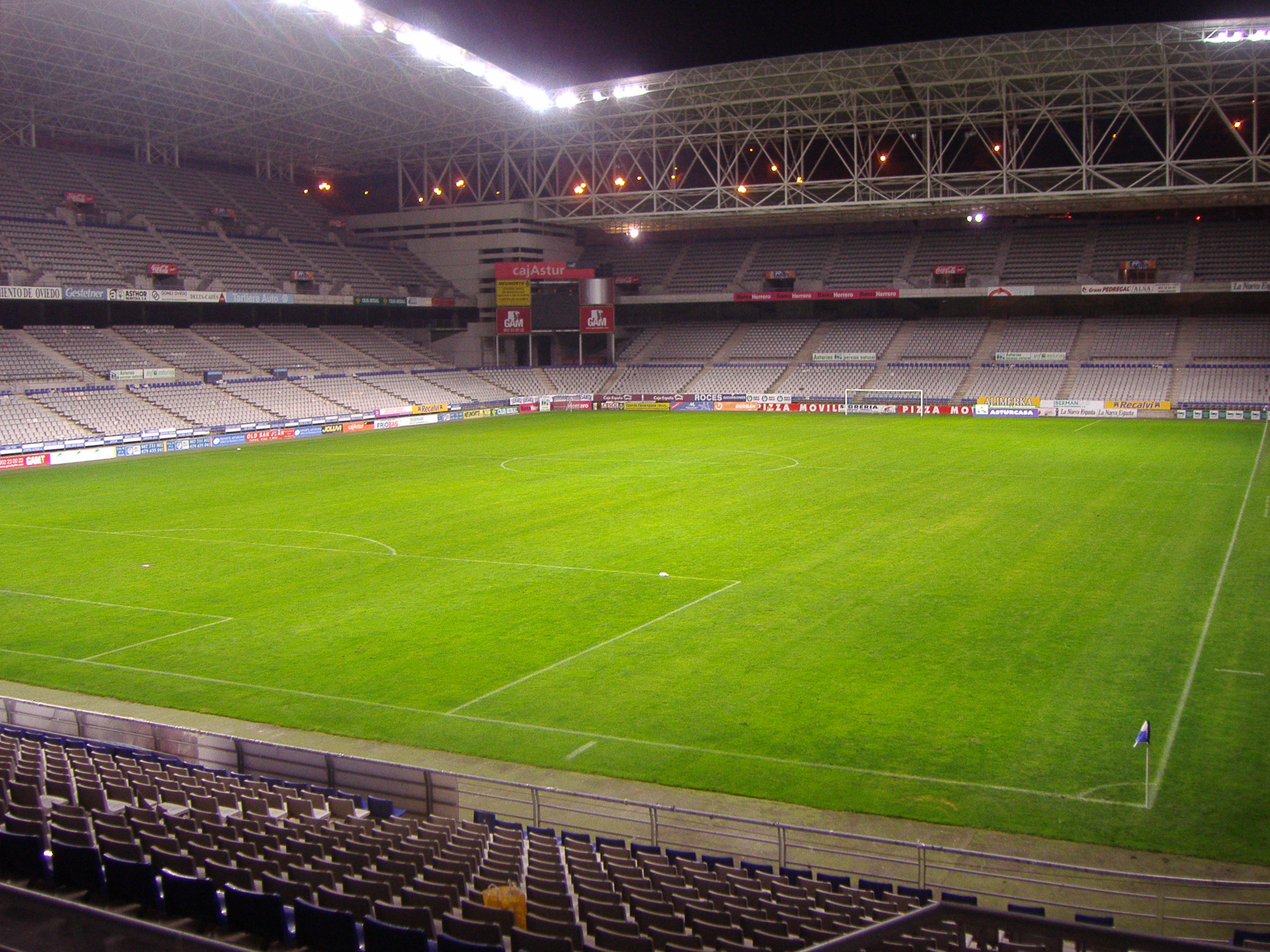 Real Oviedo Stadium